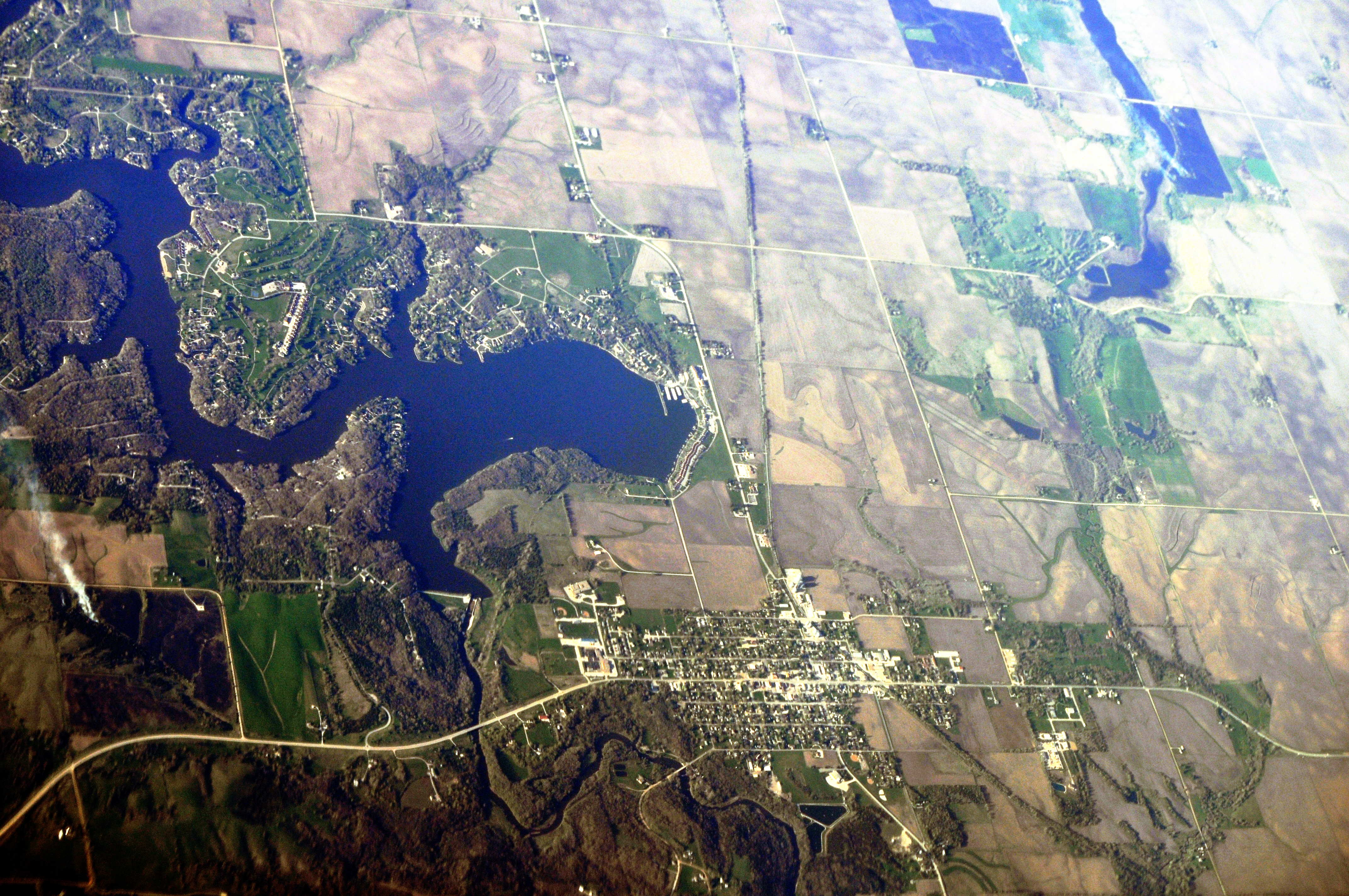 Aerial photo of Panora and Lake Panorama, Iowa, USA.